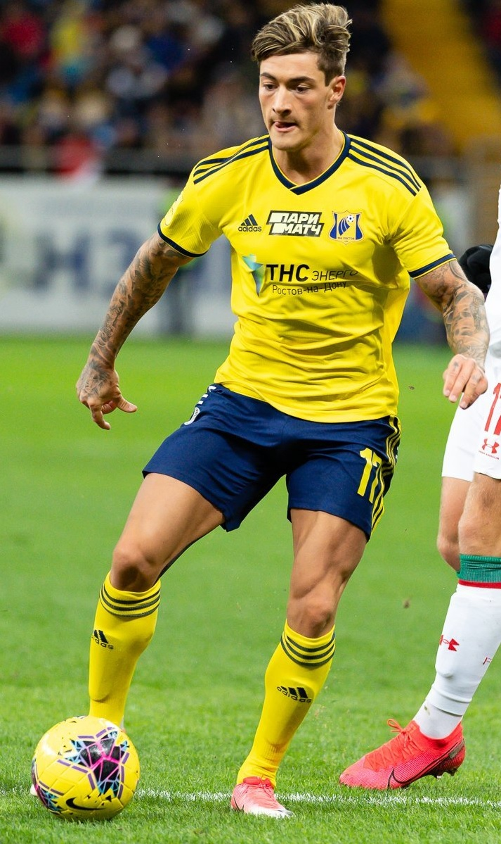 Mathias Normann with FC Rostov in a game against FC Lokomotiv Moscow.